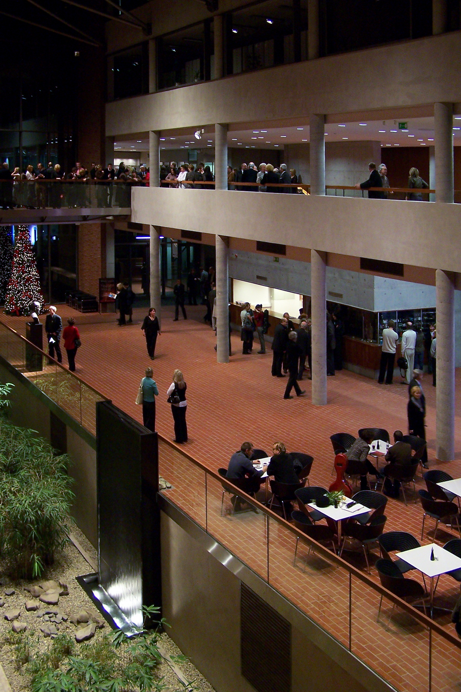 Academy of Music in Katowice.